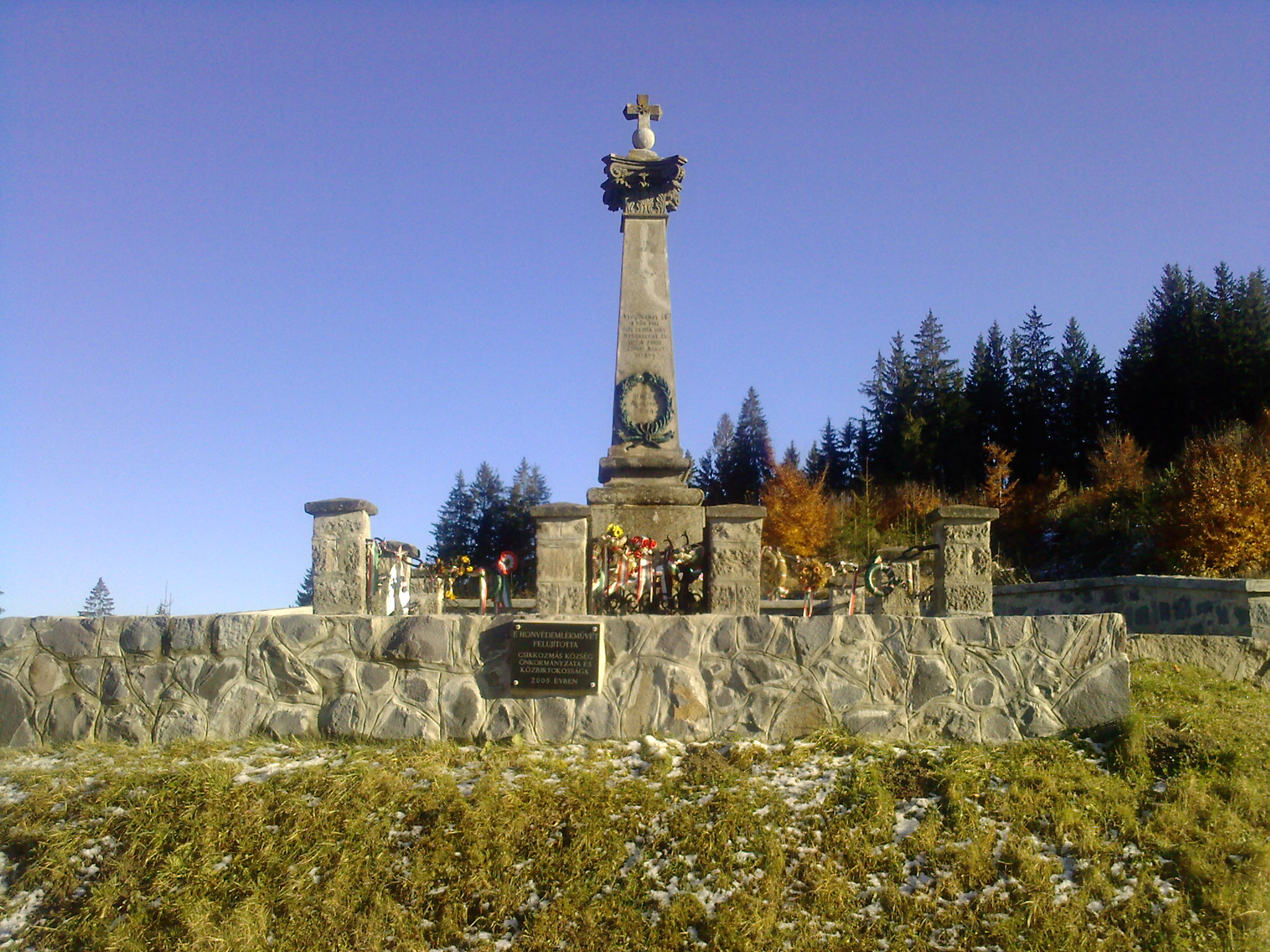 Memorial Monument of fighters 1848, Cozmeni, Harghita